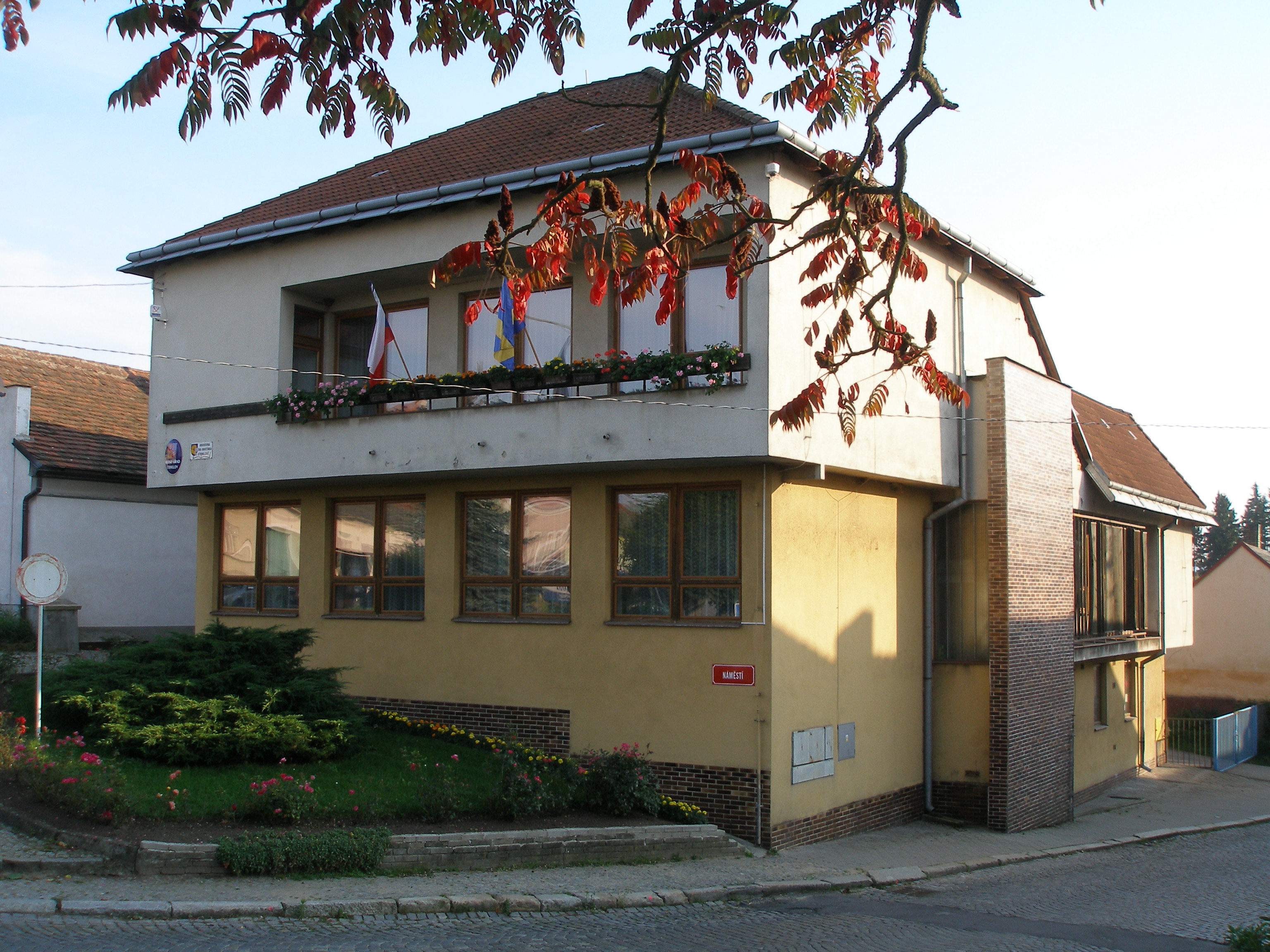 Strmilov - the city hall on the square